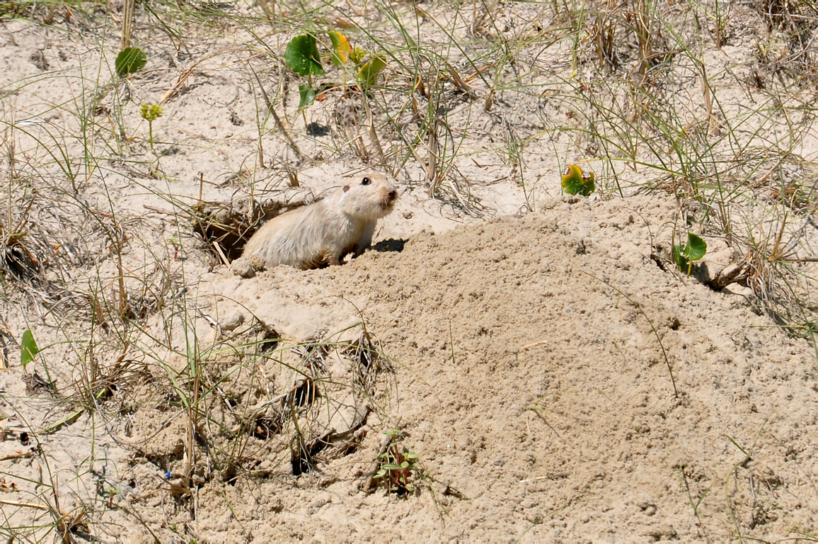 Ctenomys flamarioni photographed in Rio Grande do Sul, Brazil, in December 2010.